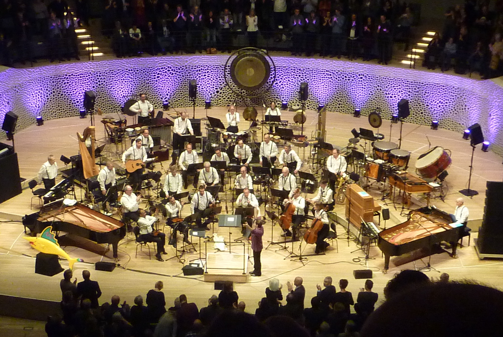 Ensemble Modern 2020-02-22 in Hamburg